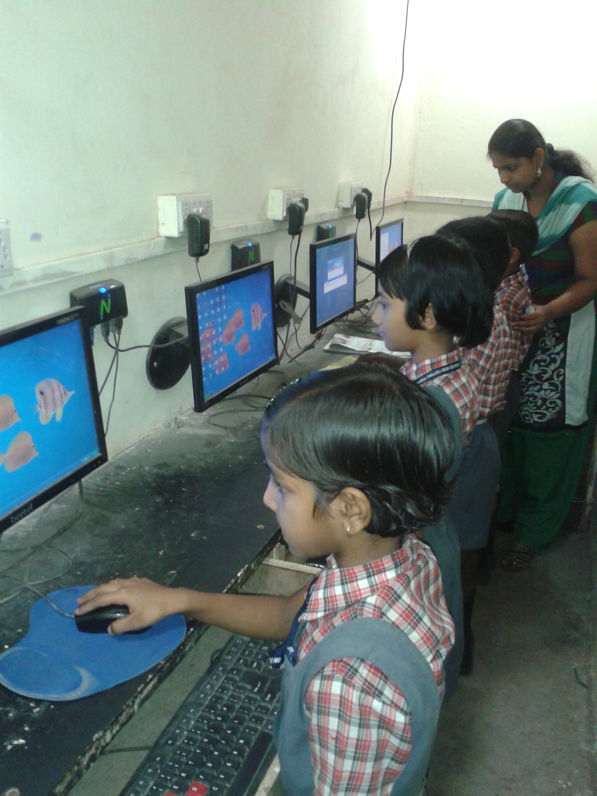 Library